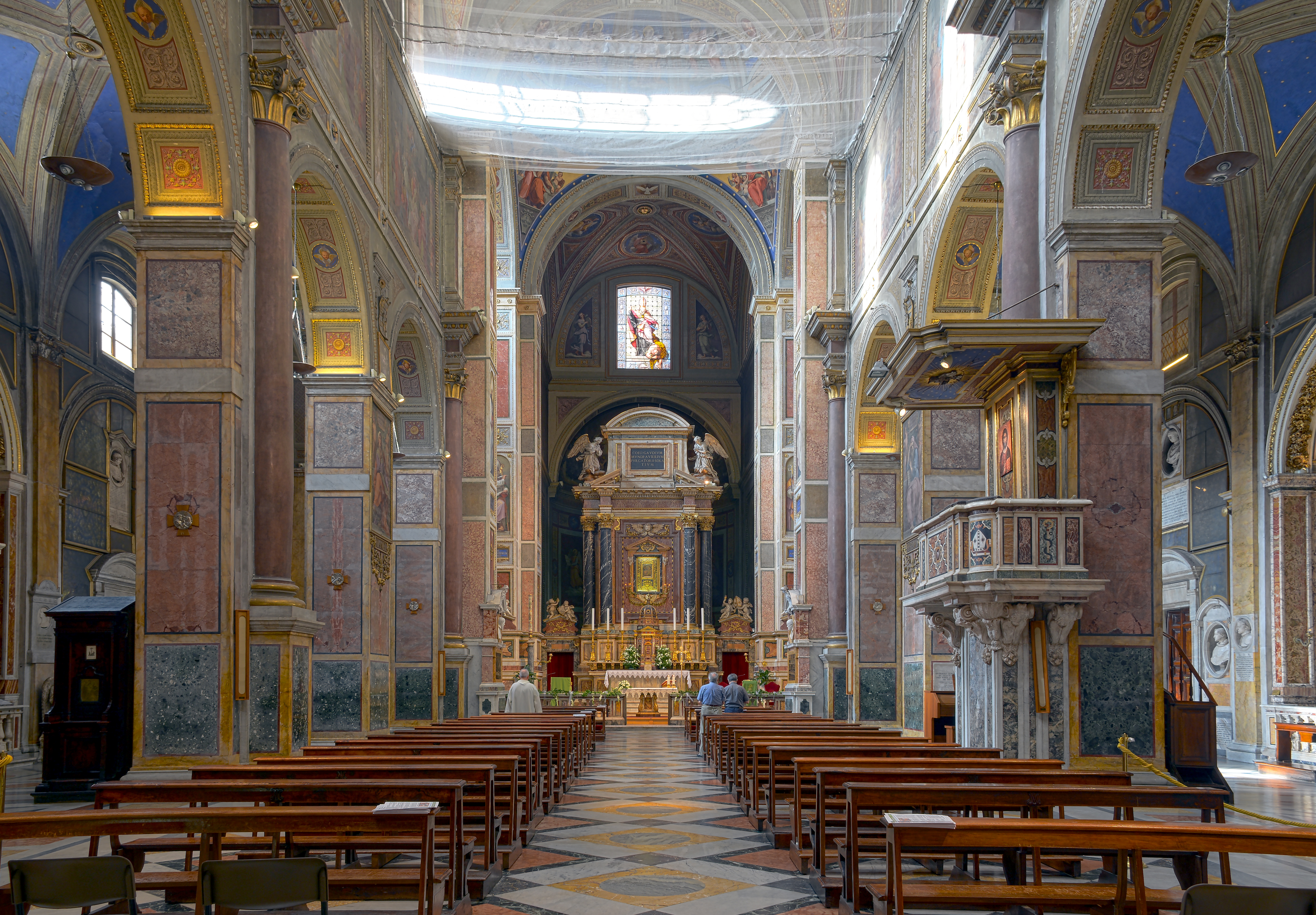 Sant'Agostino (Rome) - Interior HDR